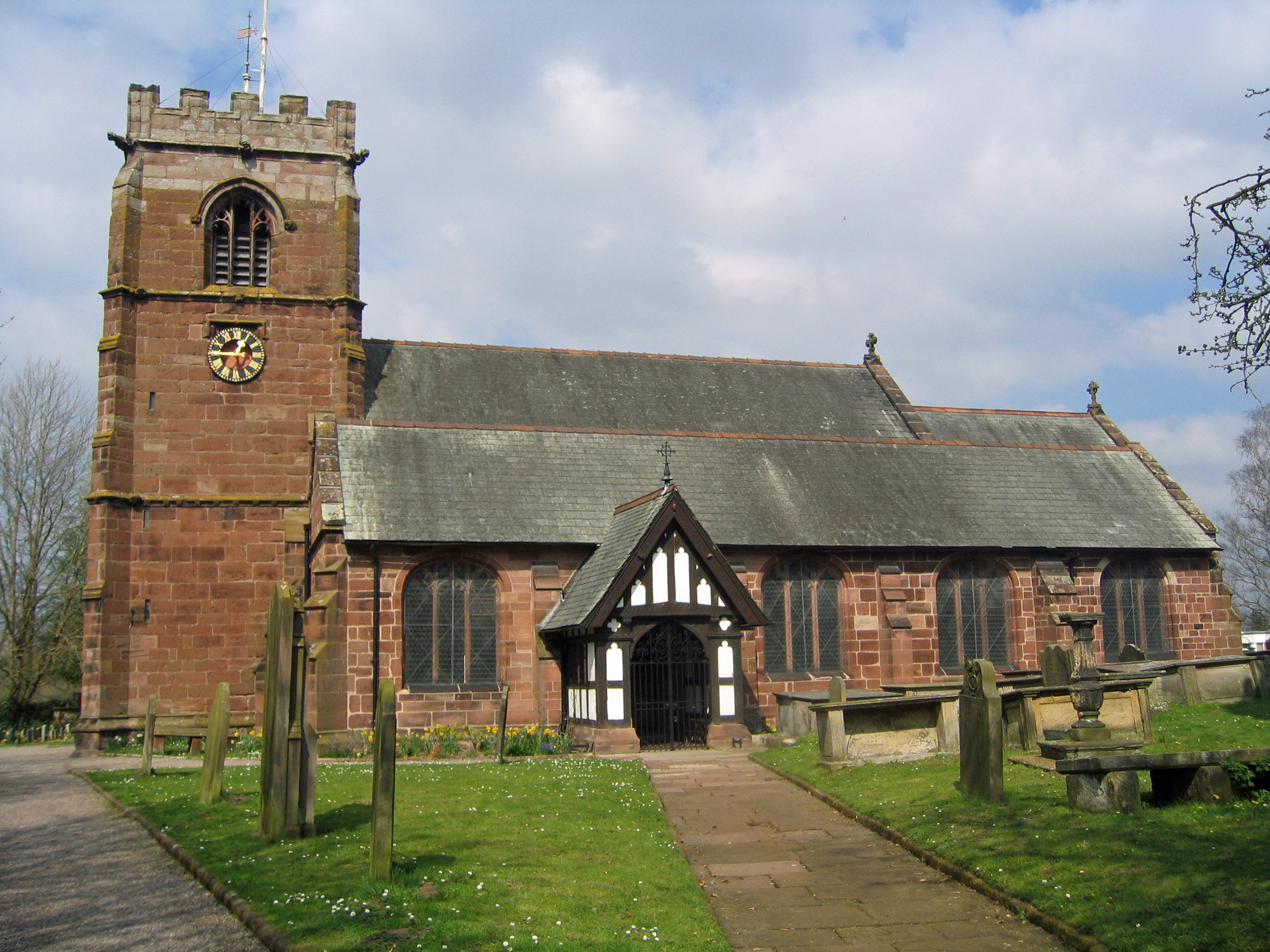 St Alban's parish church, Tattenhall, Cheshire, seen from the south